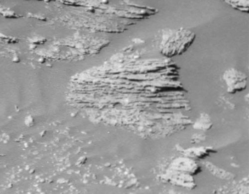 Layered rocks on Mars as seen by Opportunity's cameras (JPL/NASA)